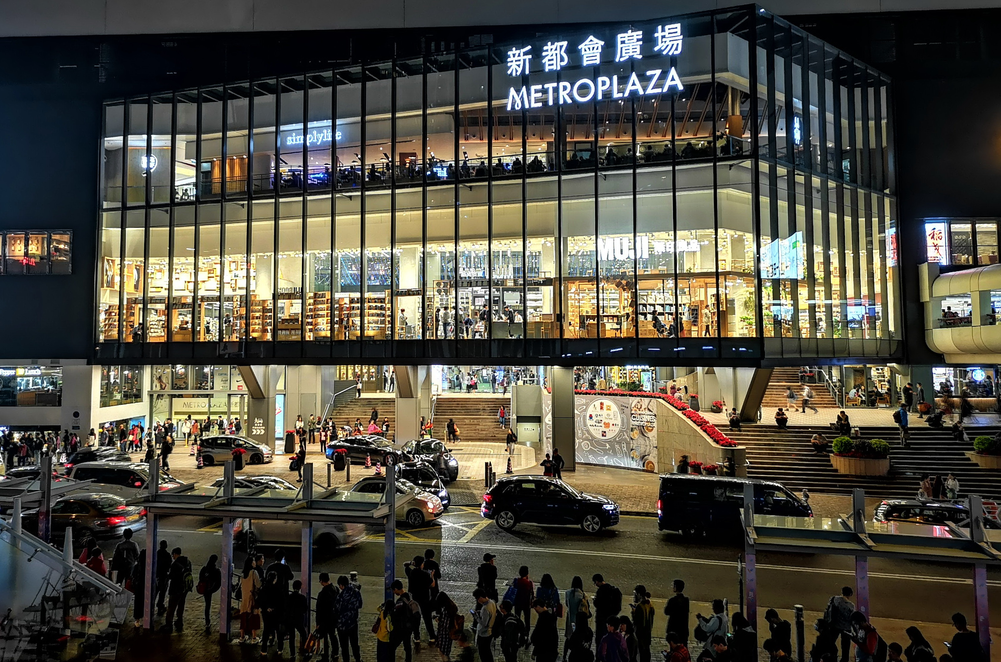 Metroplaza at night, Kwai Fong, Hong Kong.